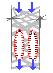 Glass sponge Euplectella. Colour coding: dark grey=spicules light grey = main (trabecular) syncitium red=choanosyncitium and collar bodies black=flagella Ref: Ruppert, E.E., Fox, R.S., and Barnes, R.D. (2004) Invertebrate Zoology (7th ed.), Brooks / Cole, pp. 83 ISBN: 0030259827. (fig. 5-7)